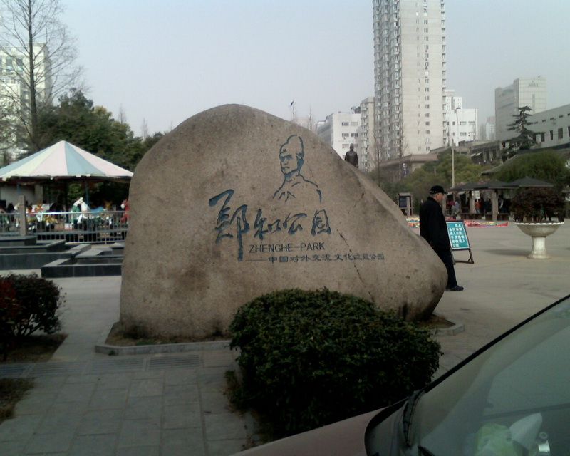 Zheng He Park,Nanjing,China.